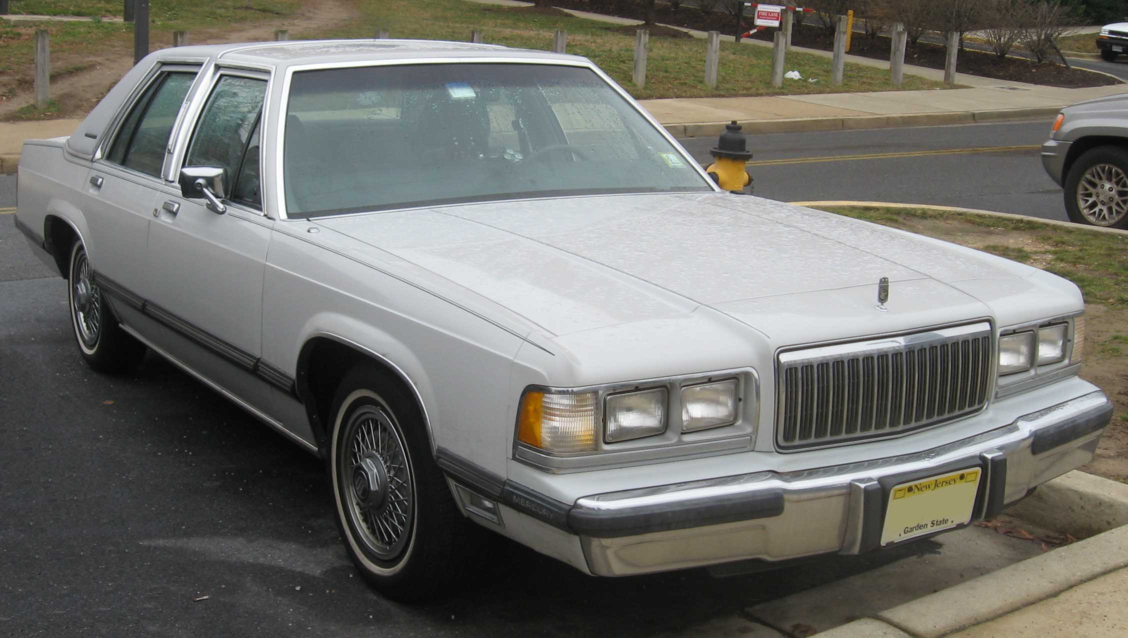 1988-1991 Mercury Grand Marquis photographed in College Park, Maryland, USA.